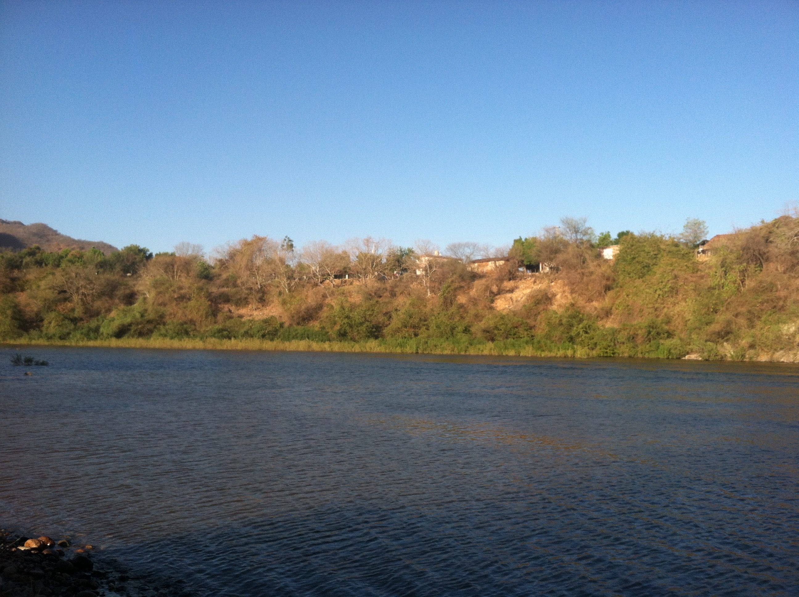 Tamazula River during dry season. Jala, Tamazula, Durango, Mexico.